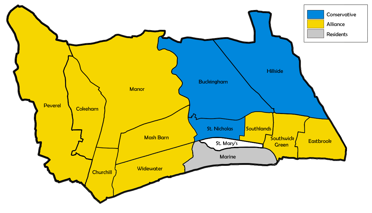 Ward map of Adur council with political colouring for the 1986 election.